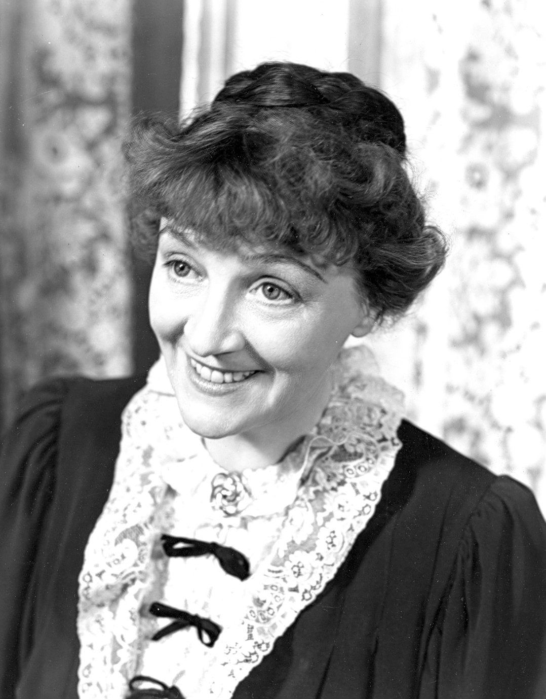 Photo of Patricia Collinge with print media mark-up on back.